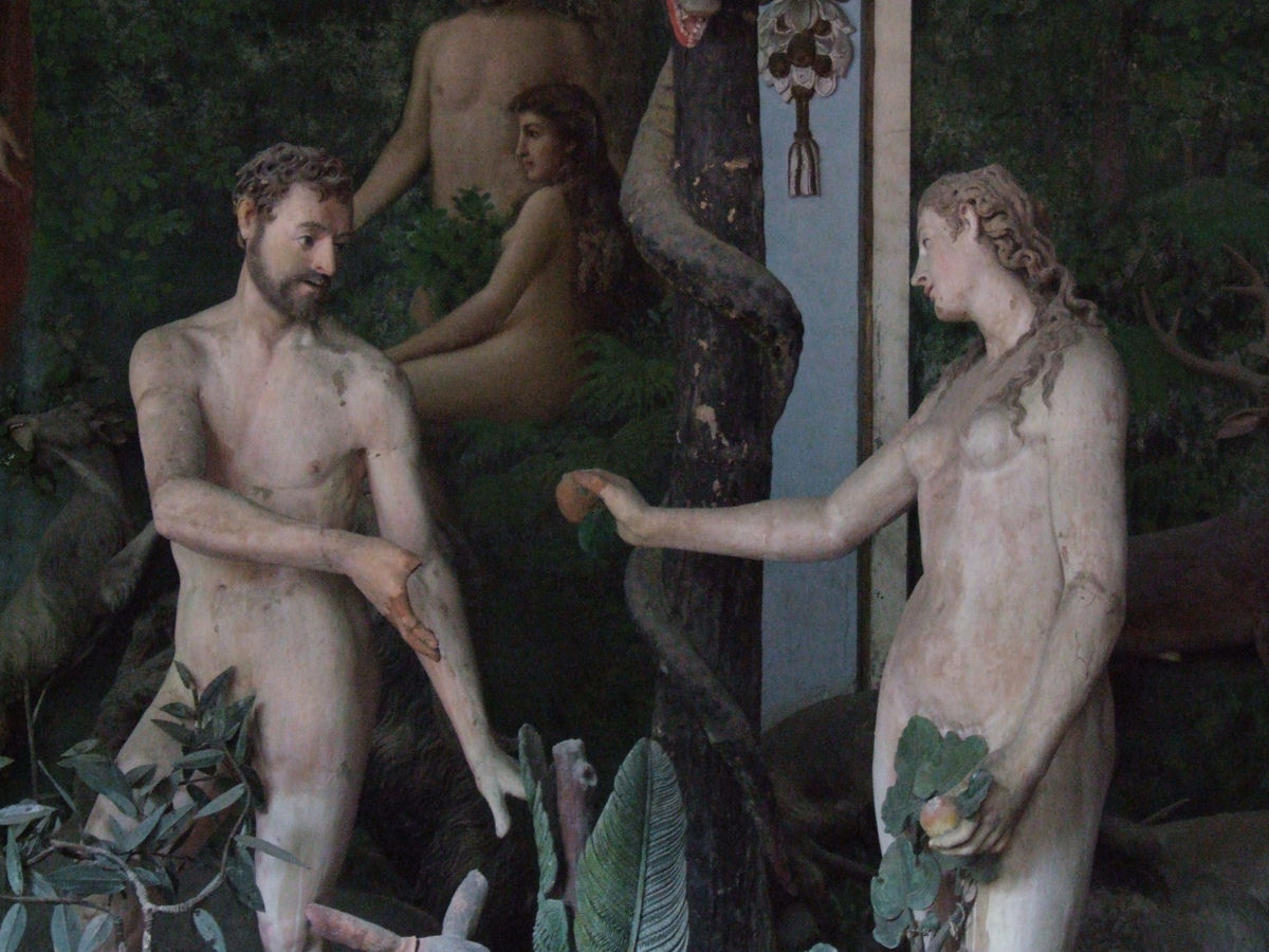 Sacro Monte di Varallo, Varallo Sesia, Italy - Polychrome clay statues and frescos ; Chapel I, The Original Sin, Statues of Adam and Eve by Jan de Wespin called il Tabacchetti, 1597-98